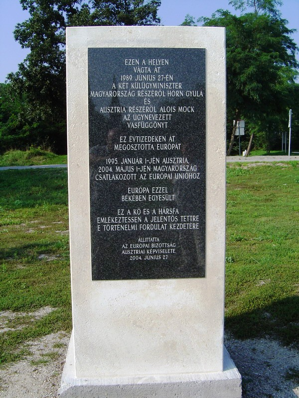 Commemorative plaque of the solemn cut through of Iron Curtain by the Austrian foreign minister Alois Mock and his Hungarian counterpart Gyula Horn on 27 June 1989. in he field of the Pan-European Picnic at Fertőrákos.